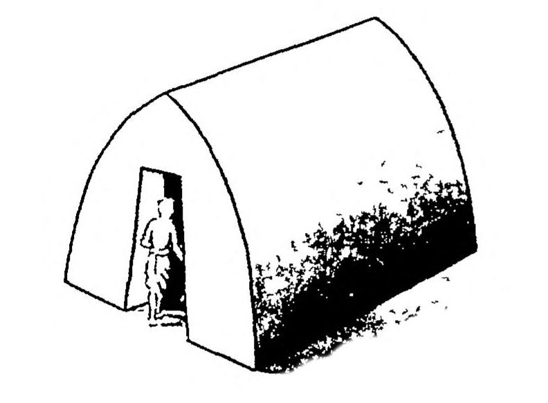 Sita Marhi cave